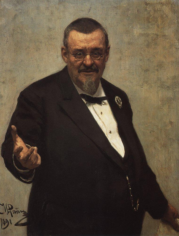 Portrait of jurist and Polish literature historian Włodzimierz Spasowicz